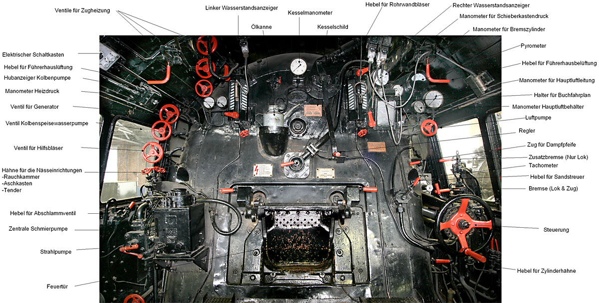 Driver's cab of a German steam locomotive DRG Class 01, number 01 008. Bochum-Dahlhausen Railway Museum.